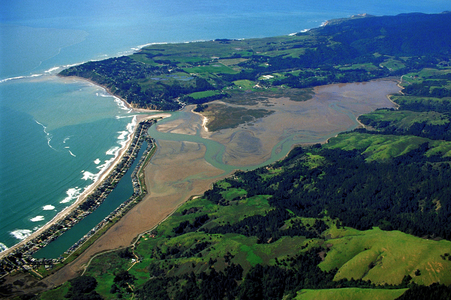 Aerial view of Bolinas (mesa, top to top left), Duxbury Point (extending left from the mesa), Bolinas Bay (ocean) Bolinas lagoon (marshy area), Stinson Beach (left, with homes surrounding an enclosed body of water), Marin County, California, USA. View is to the west. Coordinates: 37°54′34.69″N 122°40′53.07″W / 37.9096361°N 122.6814083°W